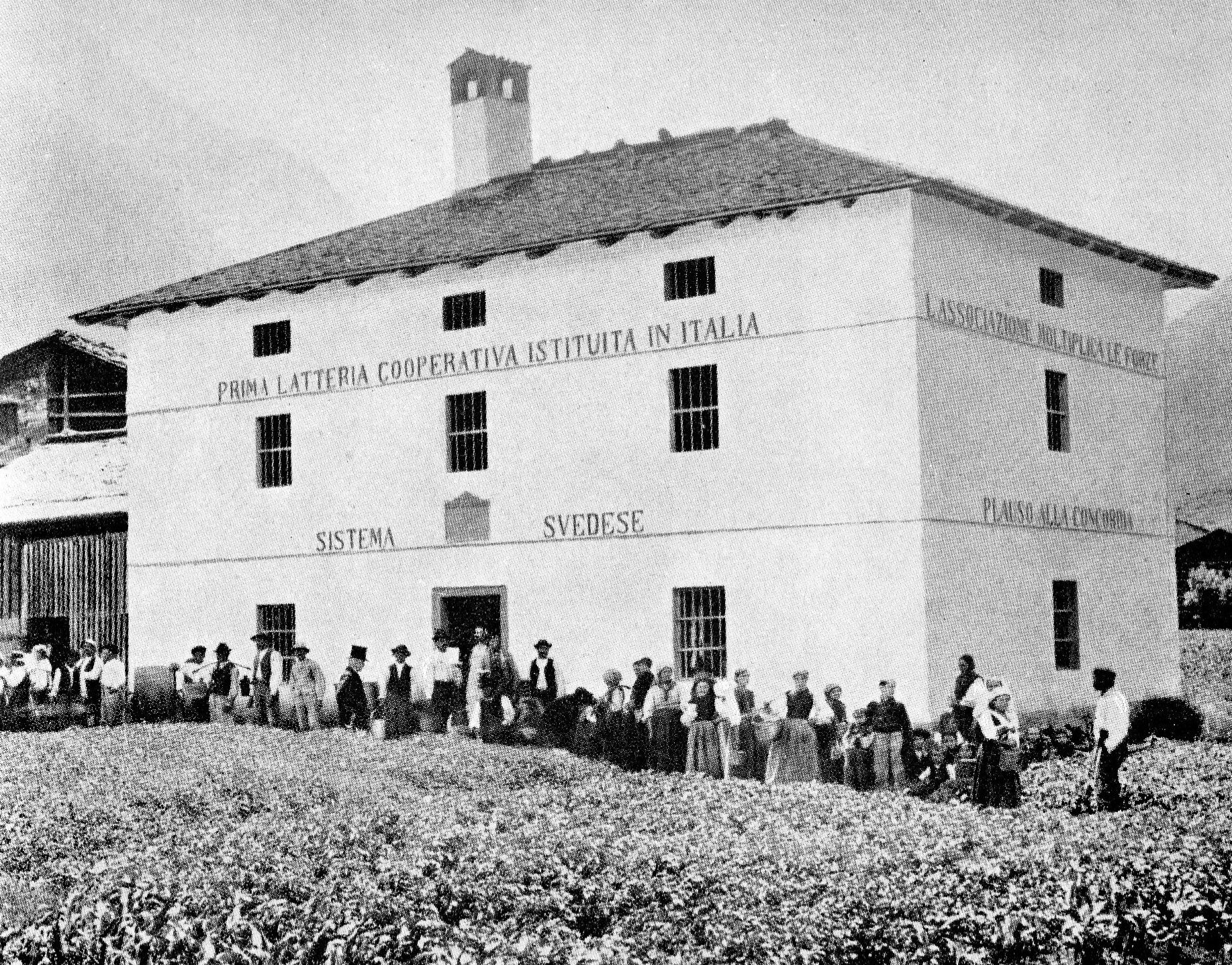 The first dairy cooperative in Italy of 1872